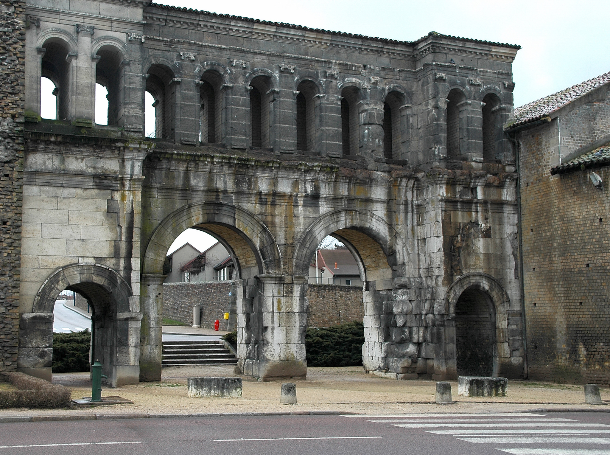 Autun, France, Roman Gate